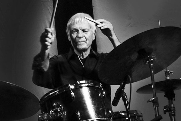 Alex Riel, Jazzydays jazzfestival, Tversted Denmark 2016